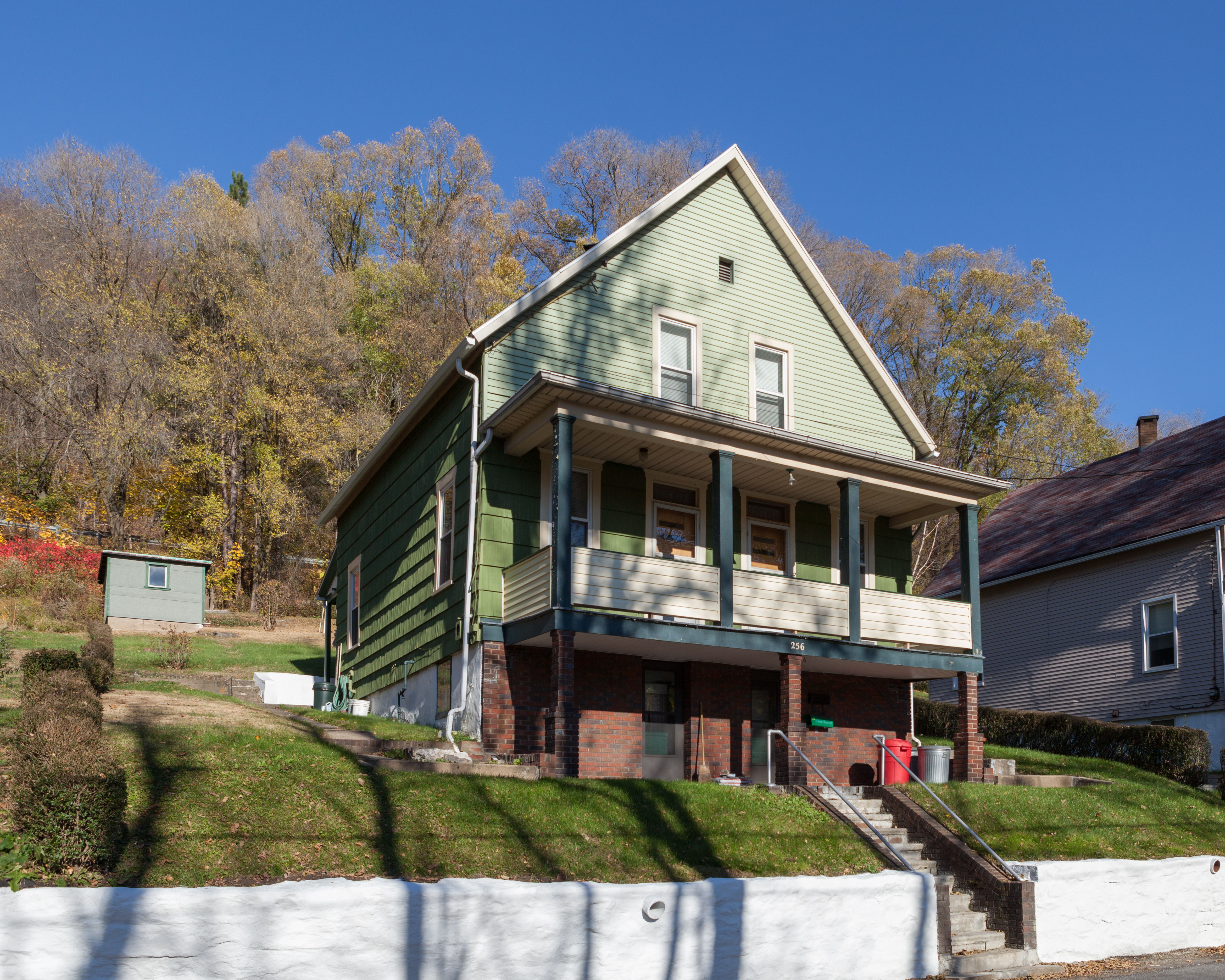 256 Iron Street, a company house in the Minersville Historic District, Johnstown, Pennsylvania.